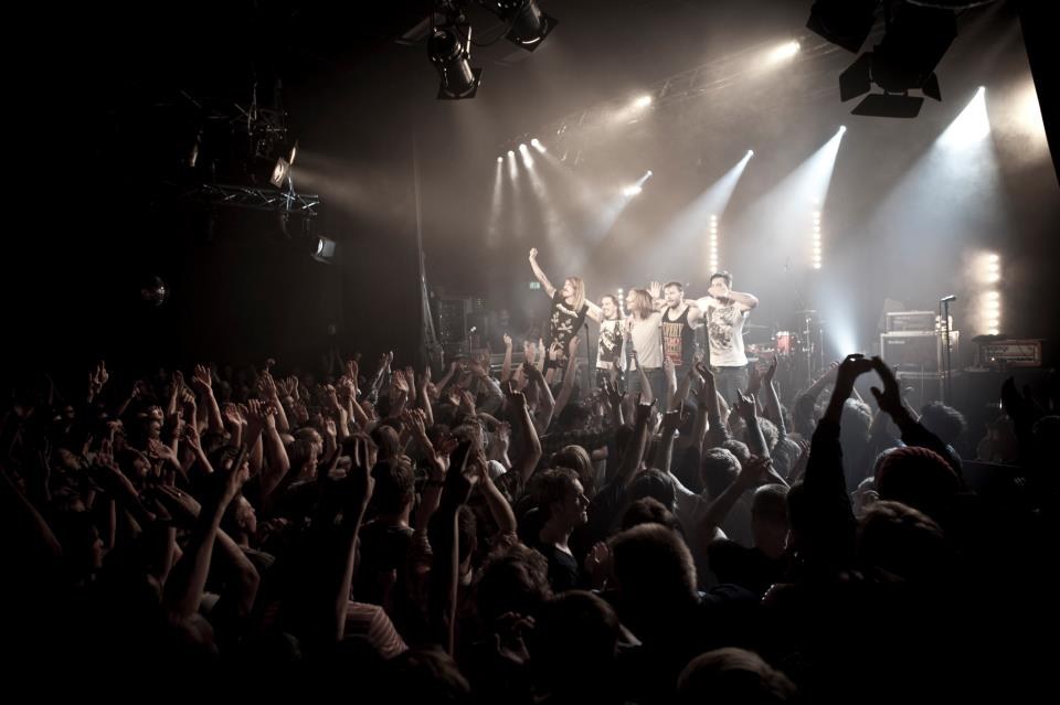 Encore during Bright Companions release show